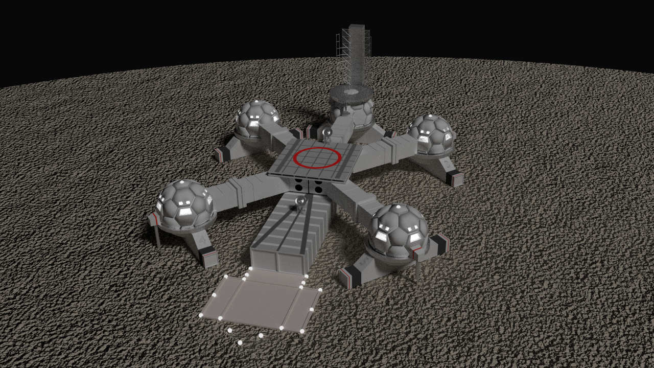 Sample Blender Cycles render showing “fireflies” (unwanted random bright pixels).